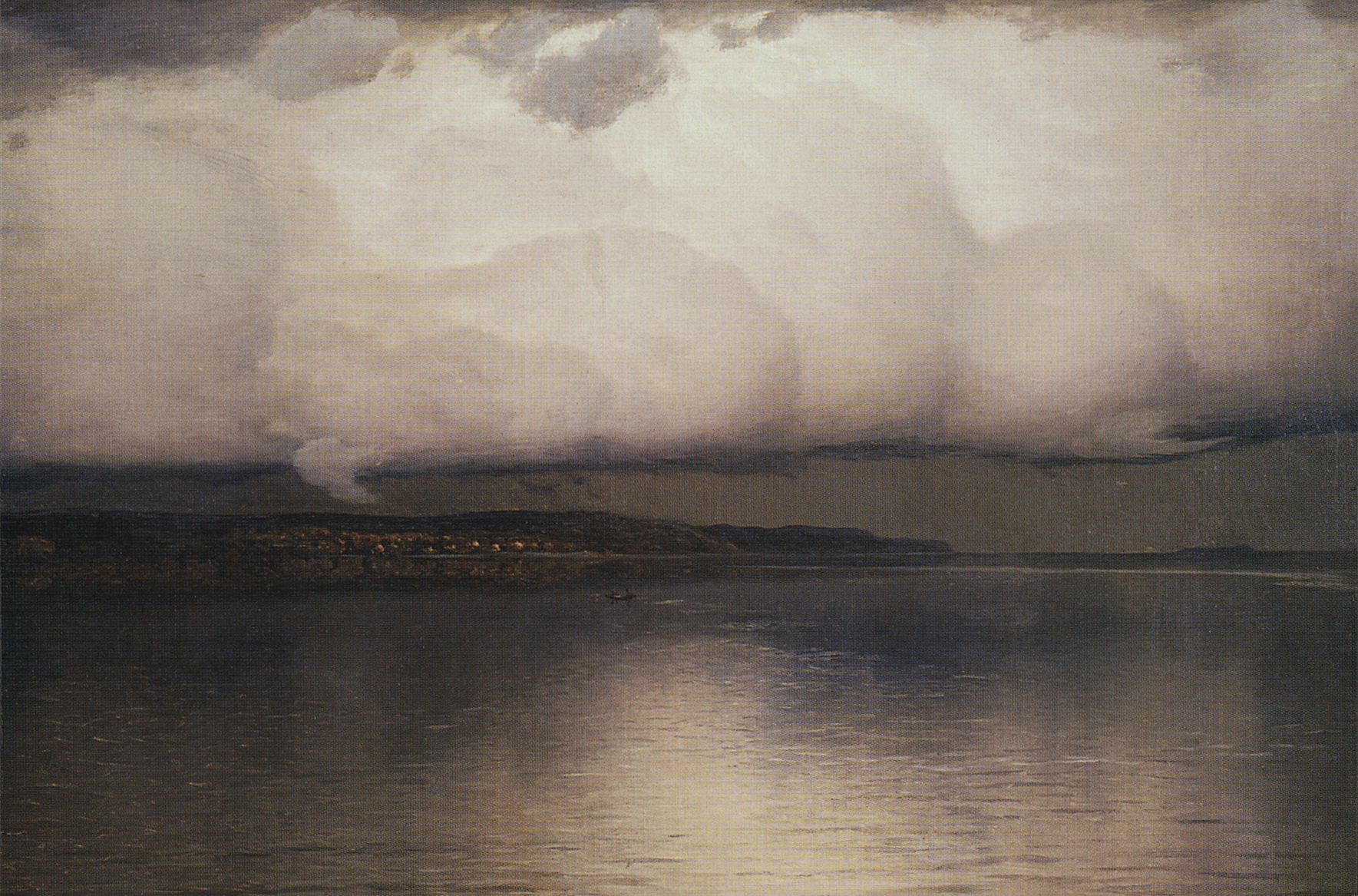 Calm before a storm (1890s, Vladimir-Suzdal Museum-Reserve,, version of a 1890 painting from the State Russian Museum, by Nikolay Dubovskoy)